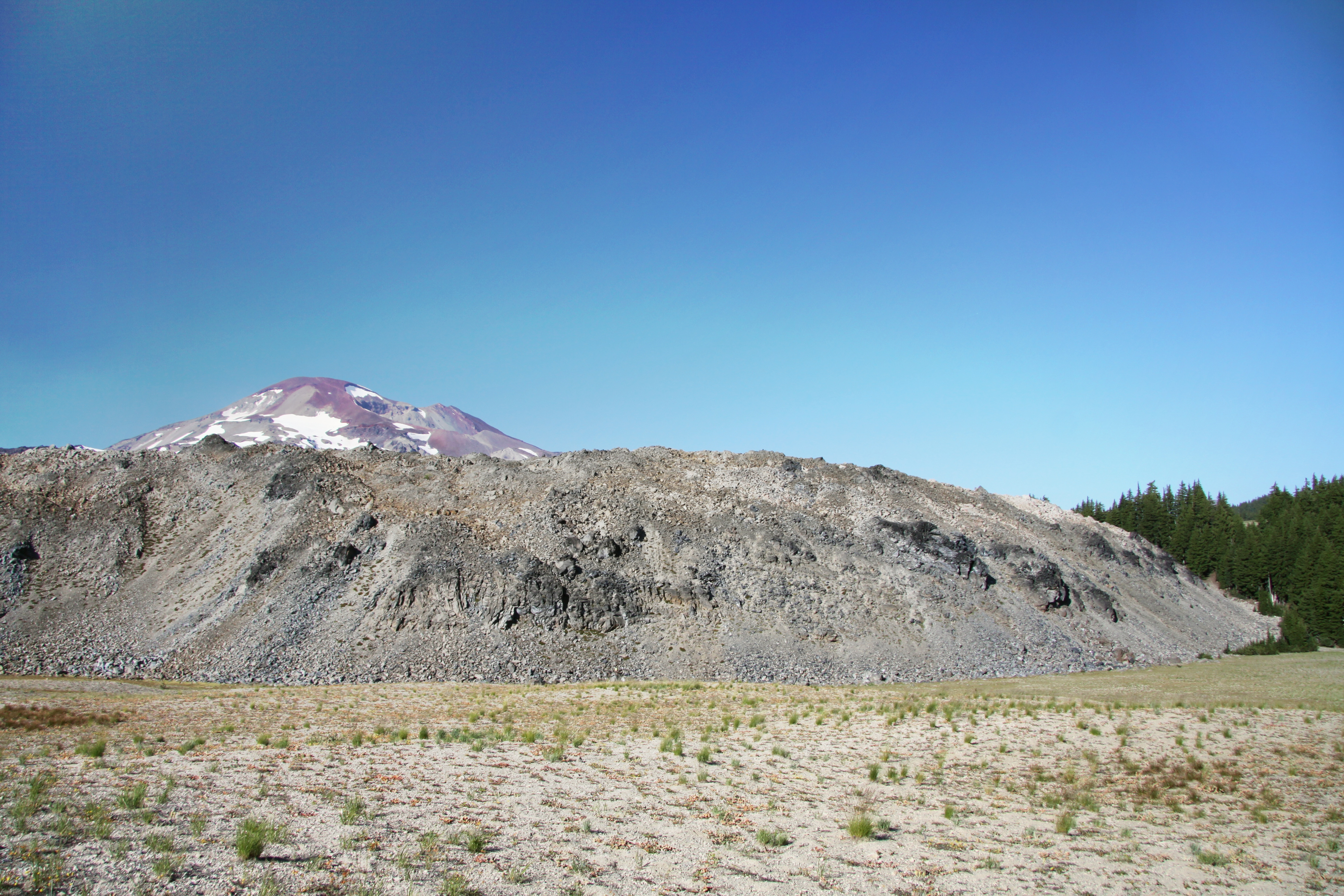 The Rock Mesa obsidian lava flow with South Sister in the background, Three Sisters Wilderness, Oregon, USA.